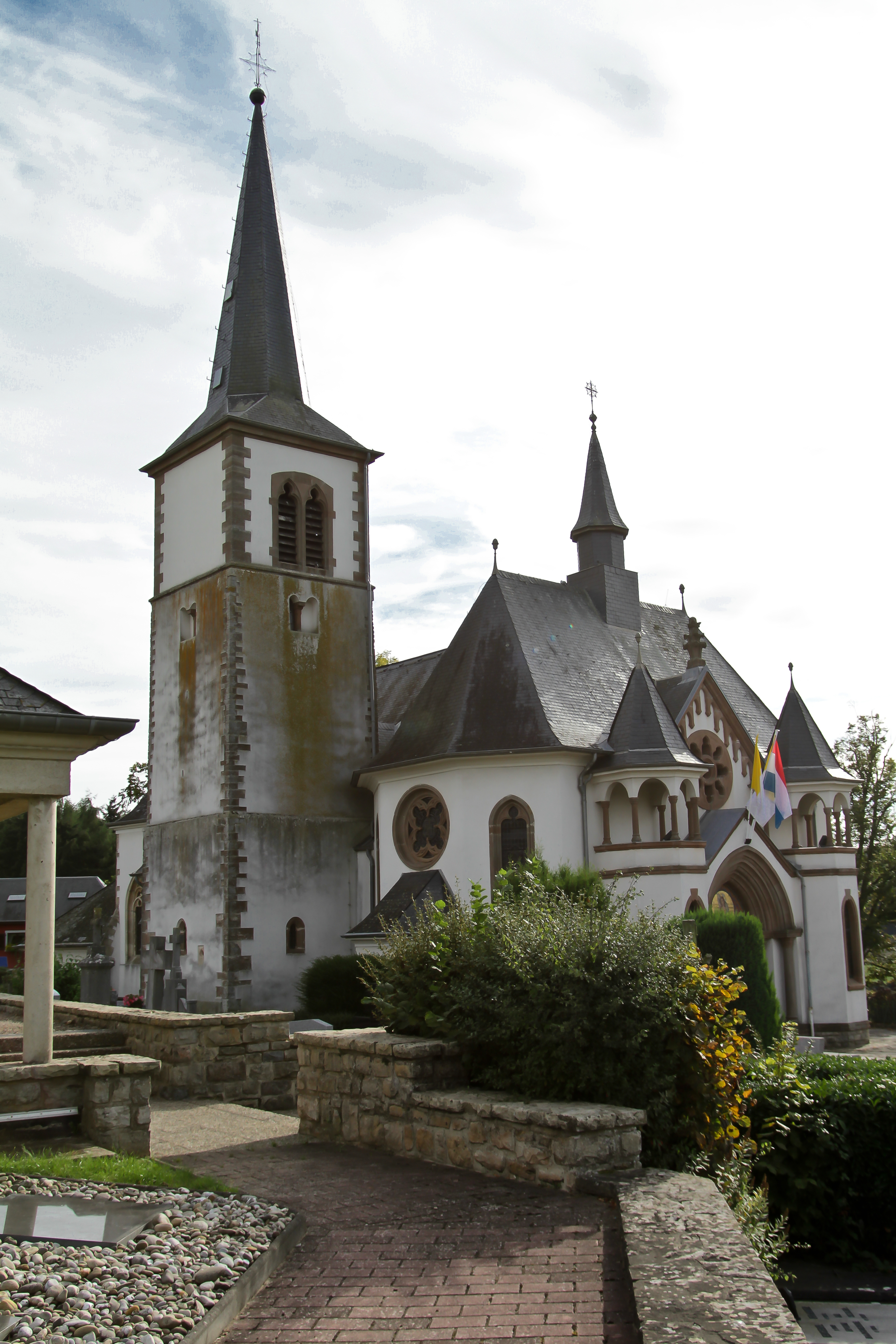 Ospern, Deanary church, alongside the National Route 23